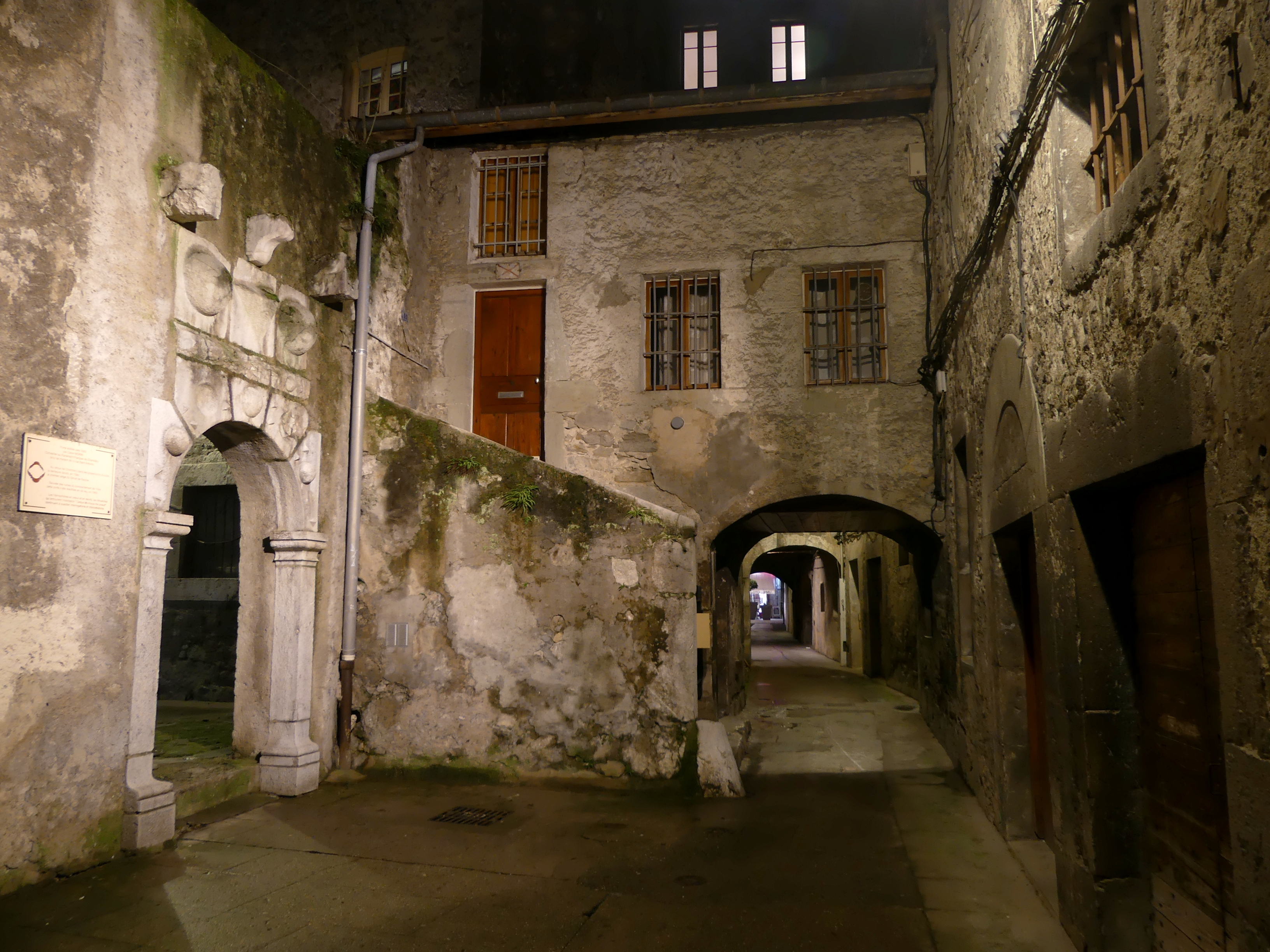 Sight, by night, of the inner courtyard of the Allée Henry Planche alley, with visible the medieval porte de Celse Morin door on the left, in the historical center of Chambéry, in Savoie, France.